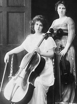 British violinist May Harrison and her sister, Beatrice Harrison, cellist, c. 1926.